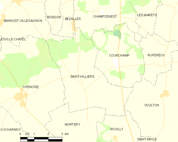 Map of French municipality Saint-Hilliers